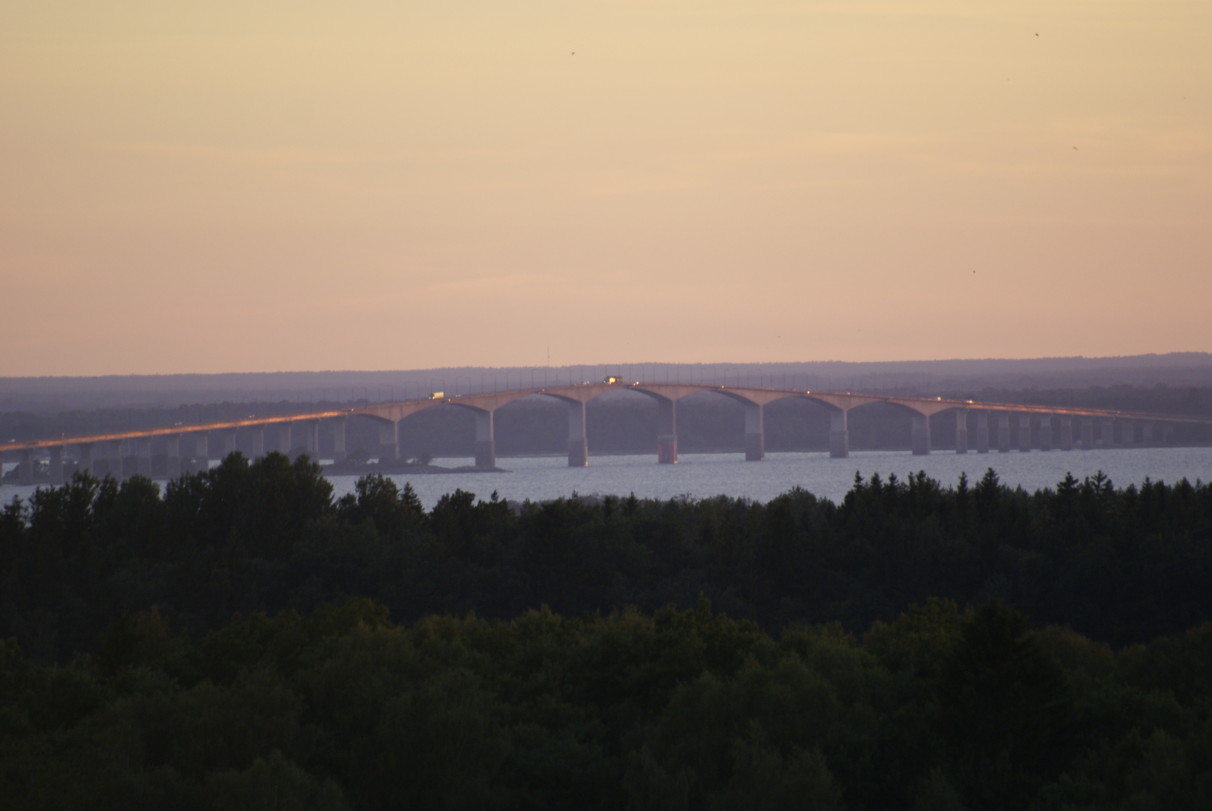 Ölandsbron